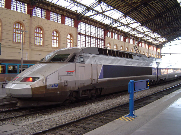 2nd generation TGV train (Réseau tricourant class), Marseille St-Charles station Image by ChrisO